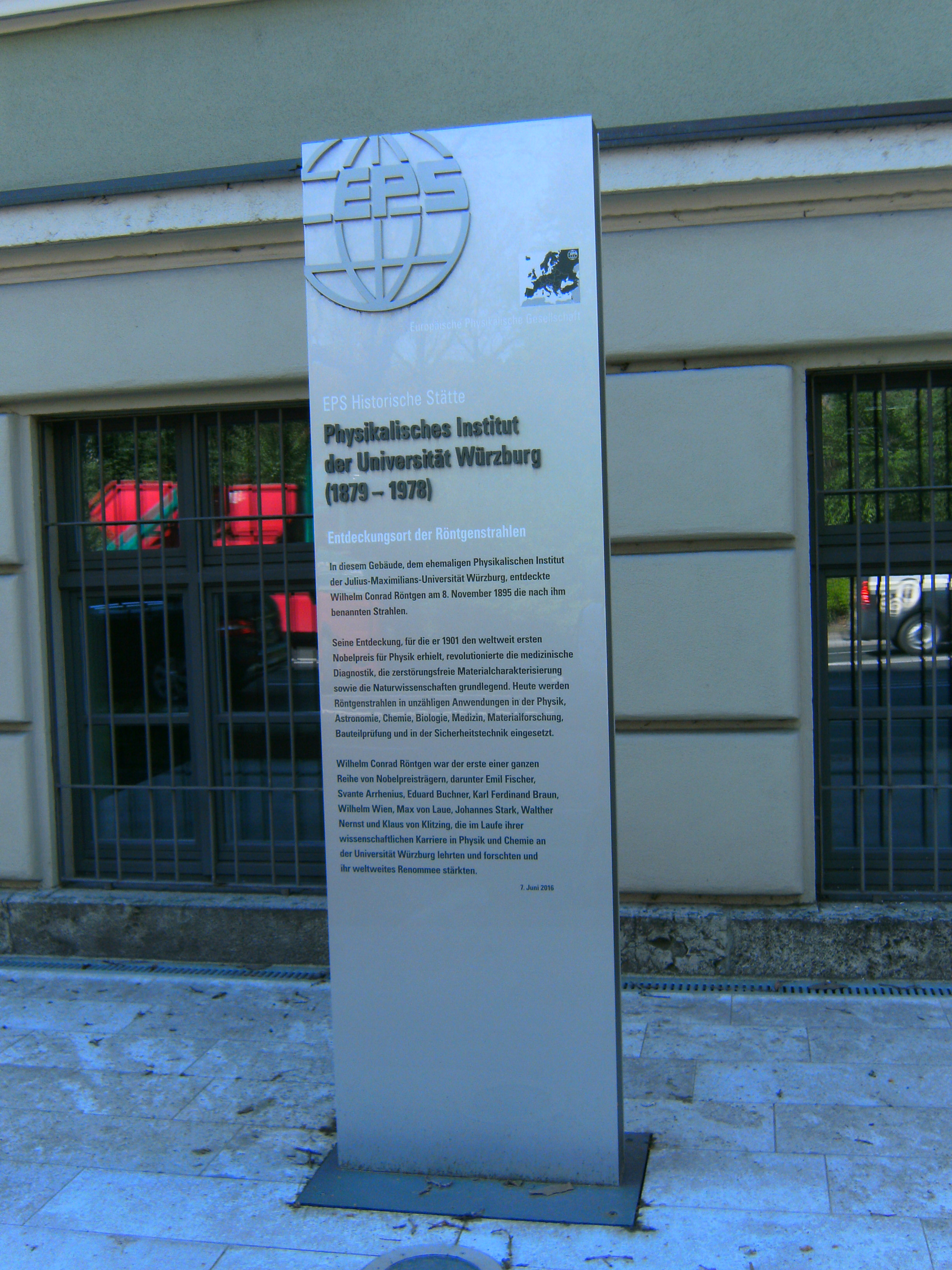 Würzburg, Germany, Röntgen-Gedächtnisstätte (laboratory), Röntgenring 8: Information board in front of the museum.